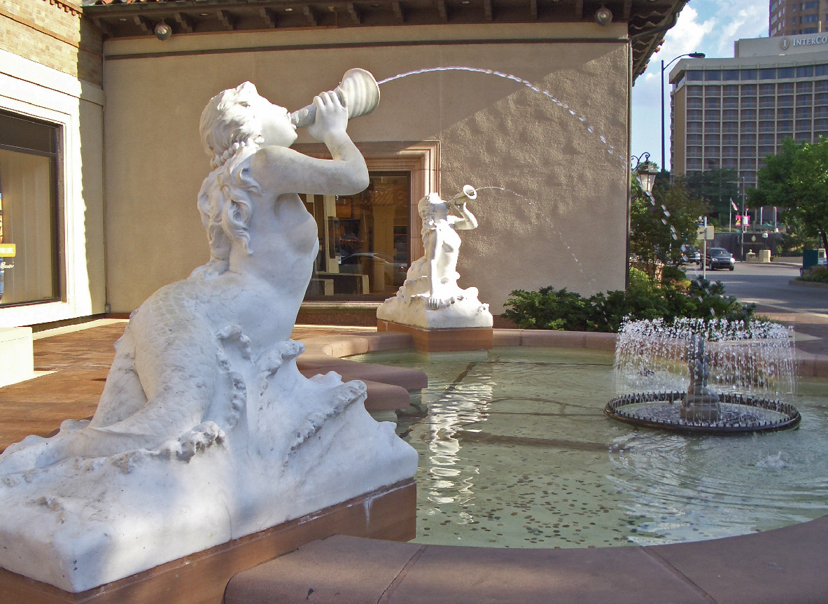 Mermaid Fountain, Kansas City, Missouri